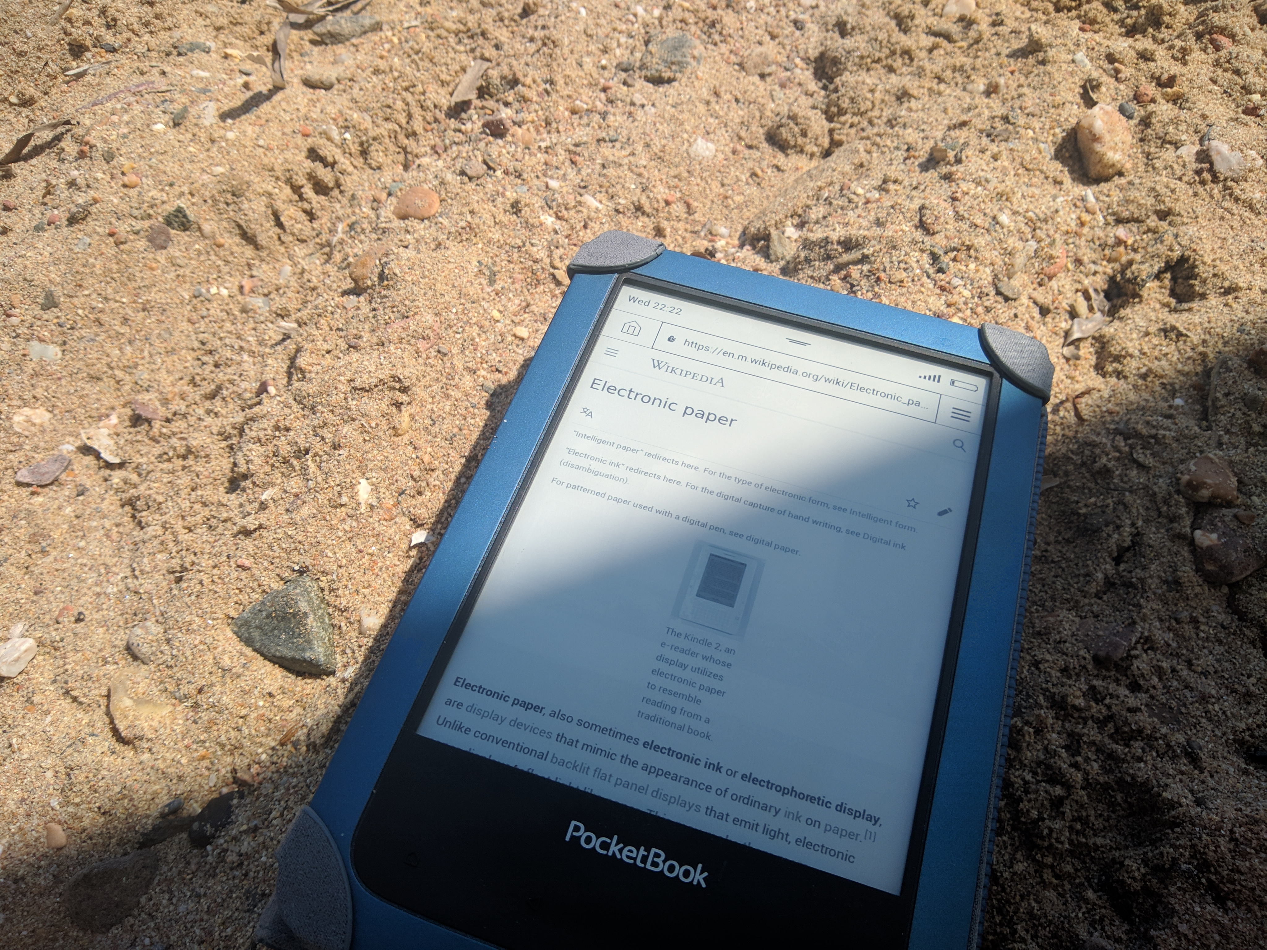 Ebook displaying wikipedia article about ebooks on sand. this is pocketbook